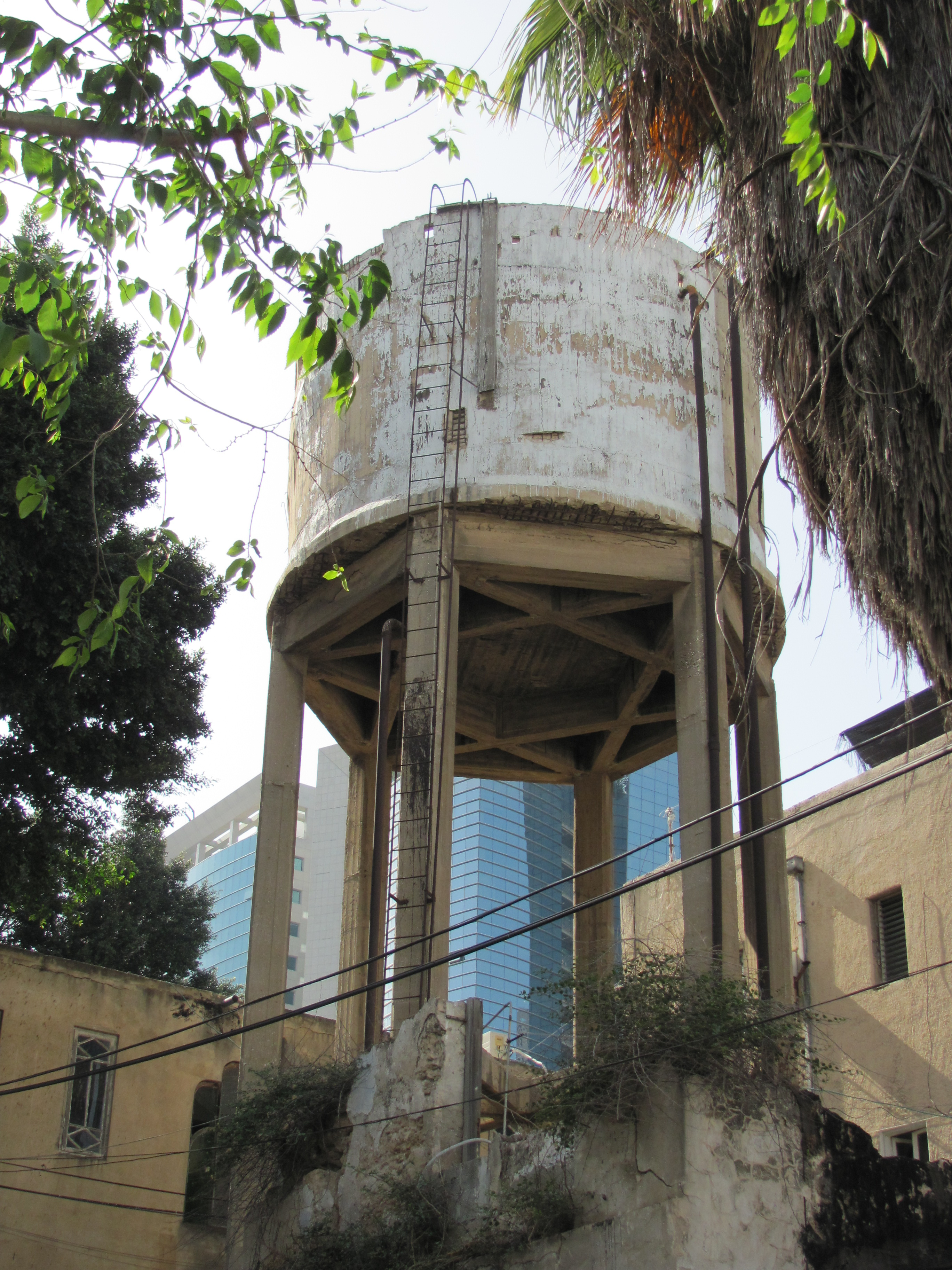 Montefiore neighbourhood water tower, Tel Aviv.